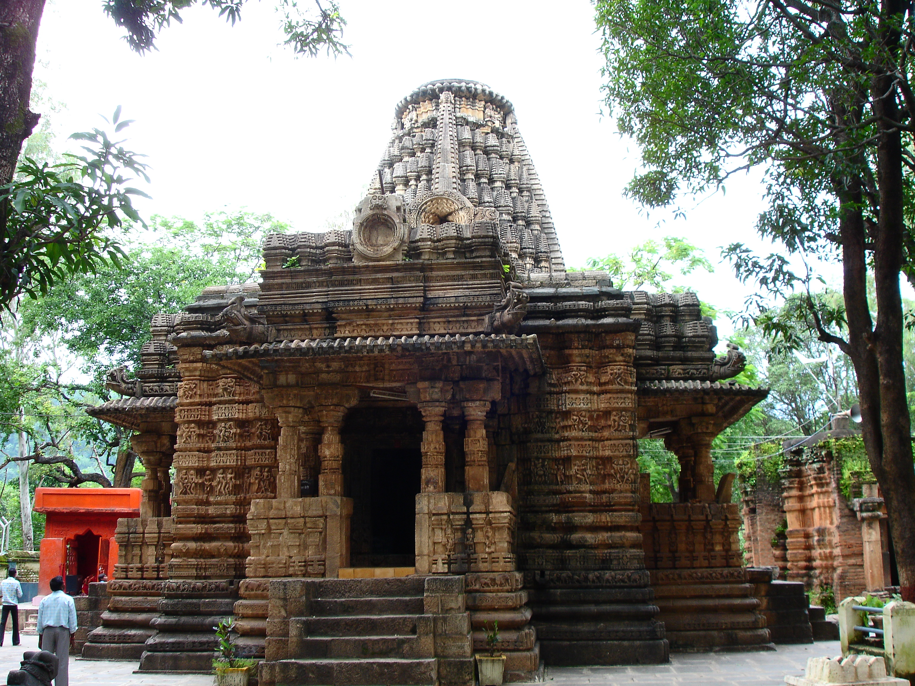 Bhorumdeo Temple is situated near Kawardha in Kabirdham District of Chhattisgarh, India.